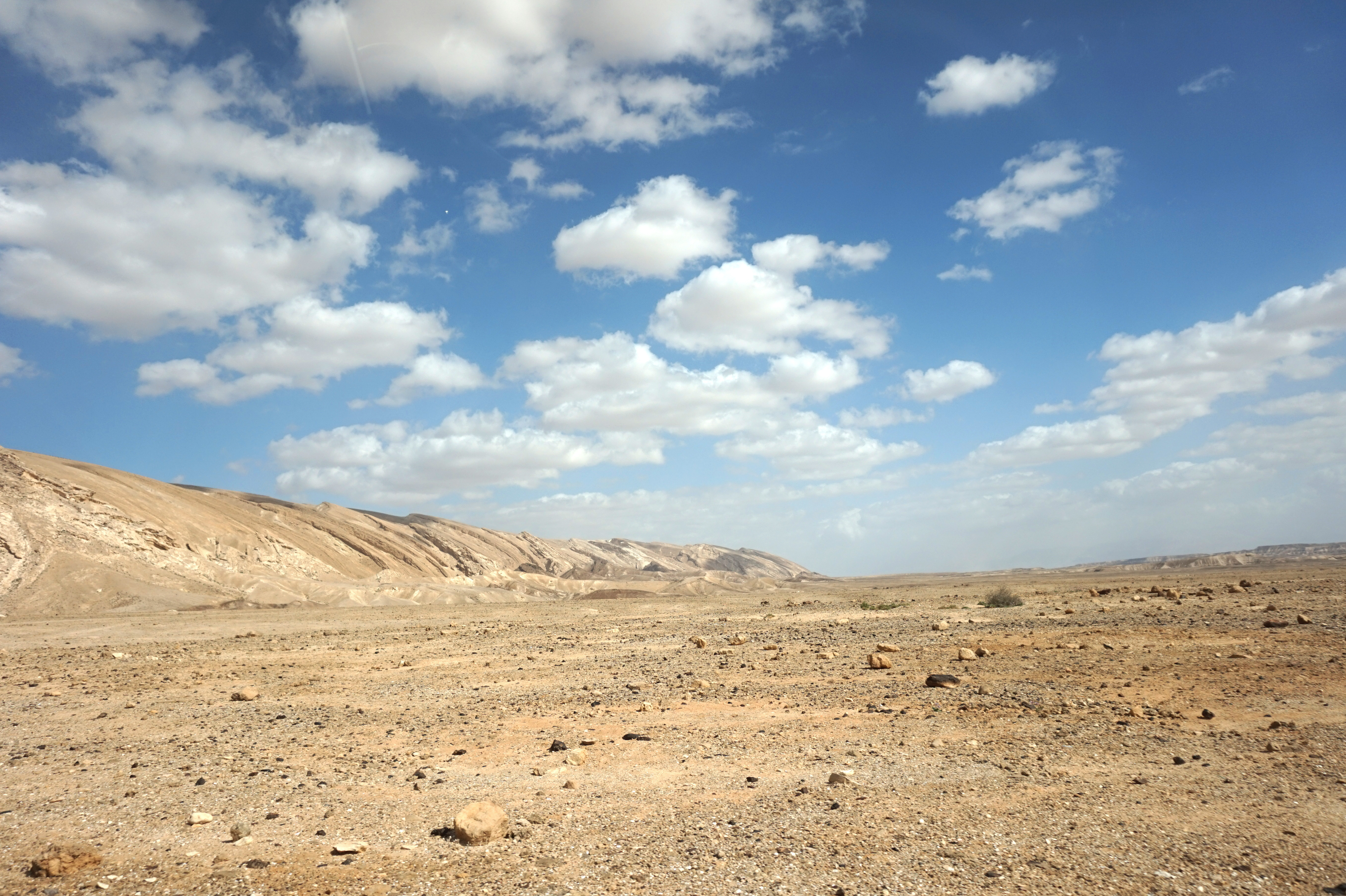 View of Negev desert in Israel.This photograph was taken with a Sony ILCE-5000